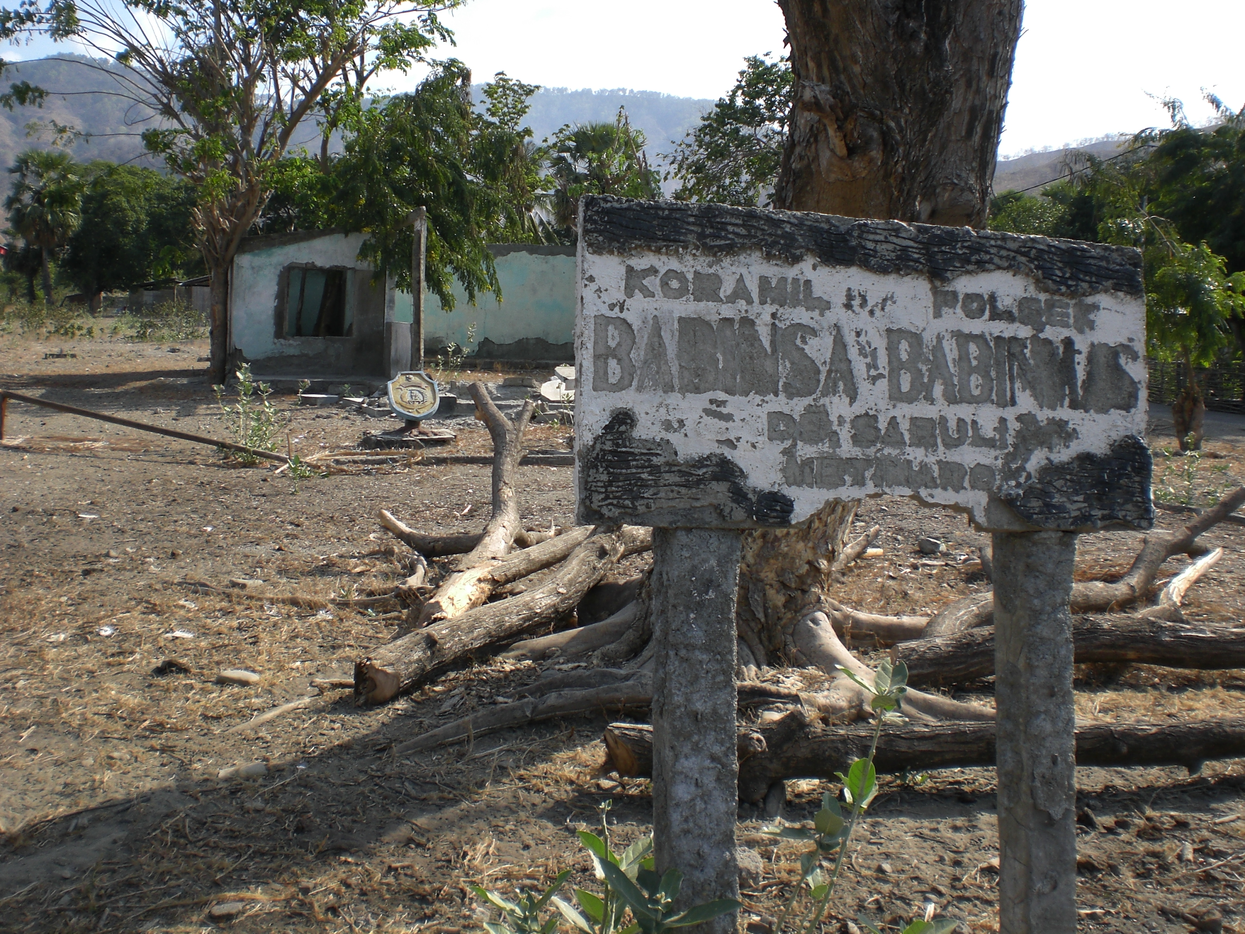 old TNI/Koramil/Polsek building in Metinaro Subdistrict Timor-Leste